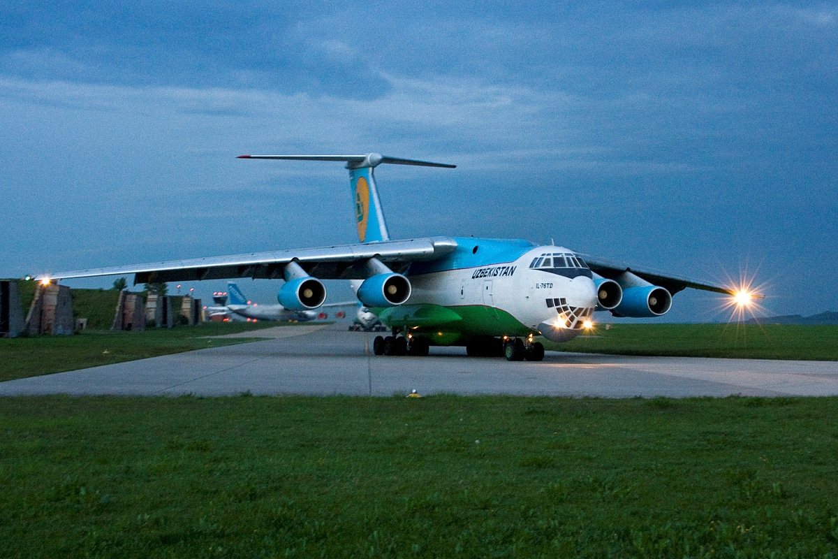 Ilyushin 76TD at Brno airport